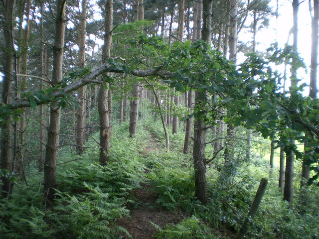 Bury Walls hillfort Another view of the overgrown hillfort earthworks, taken from the top of the bank.